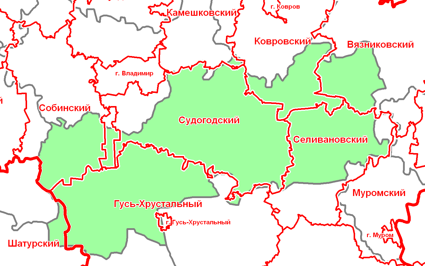 Maps of Vladimir Governorate